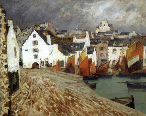 "Douarnenez, dimanche matin", Oil on Cardboard, 38.6 x 46.1 in. / 98 x 117 cm.